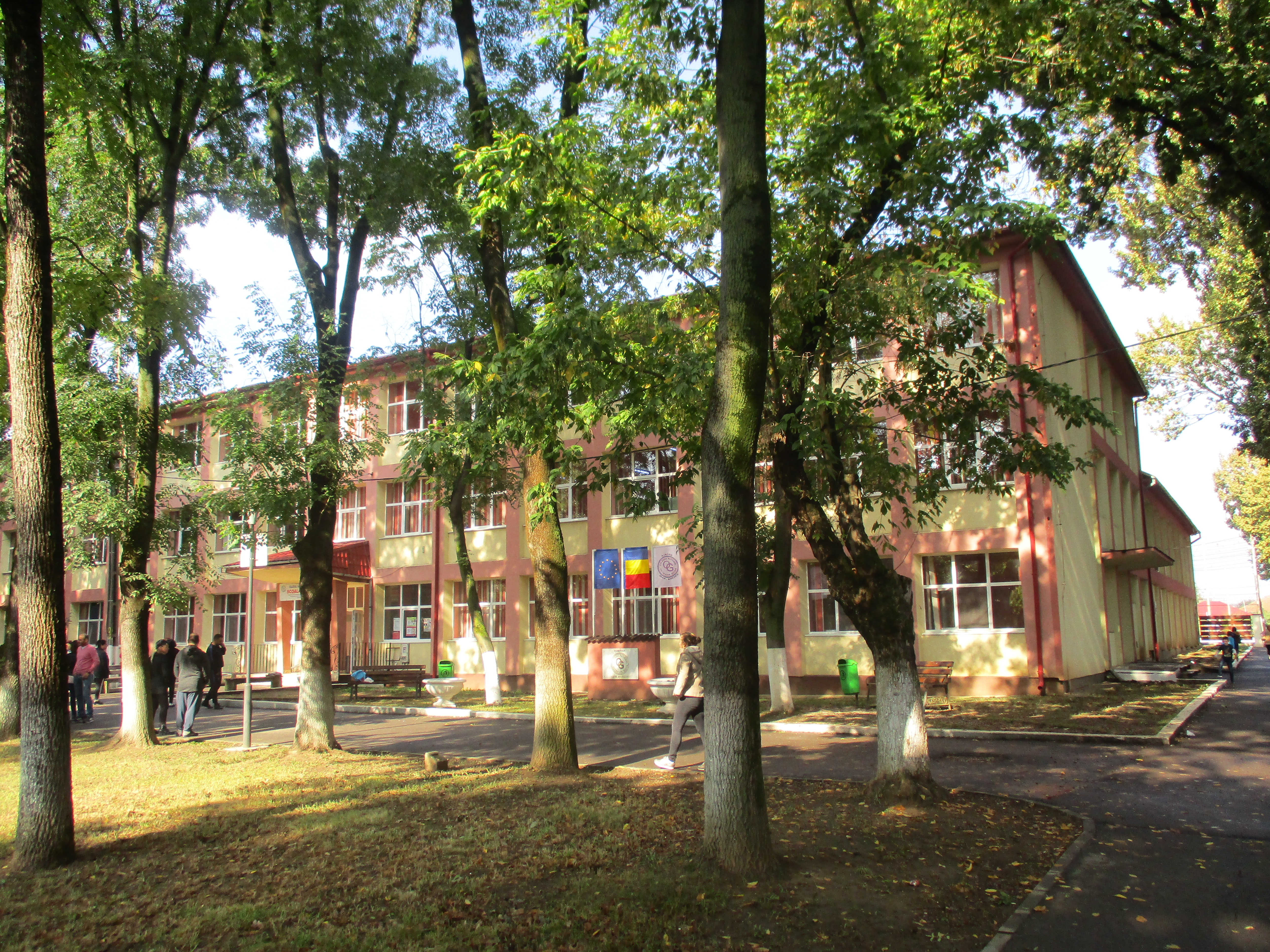 Marghita General (Elementary) School